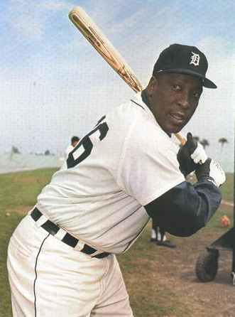 Professional baseball player Gates Brown